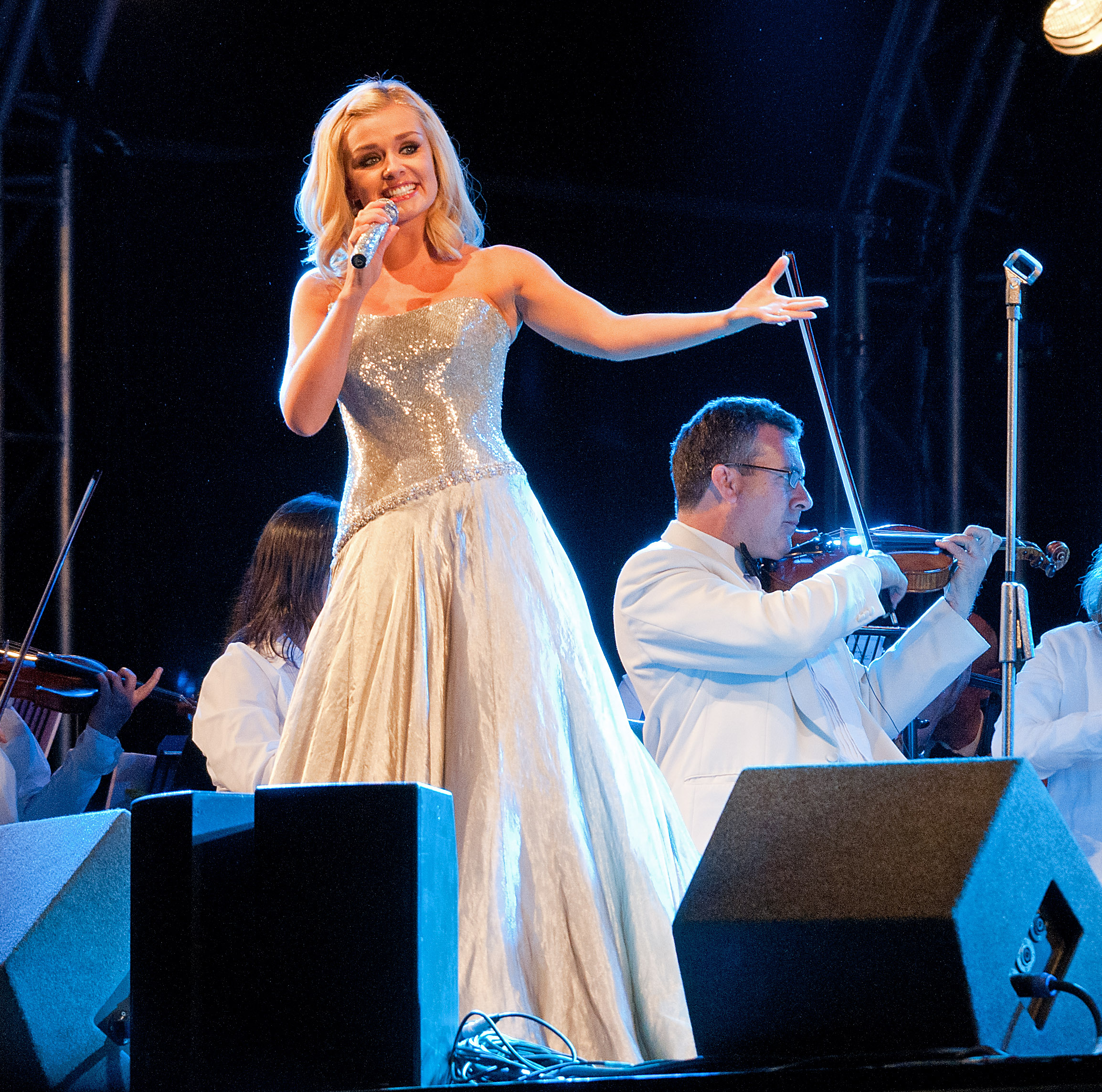 Katherine Jenkins live at Clumber Park in August 2011.